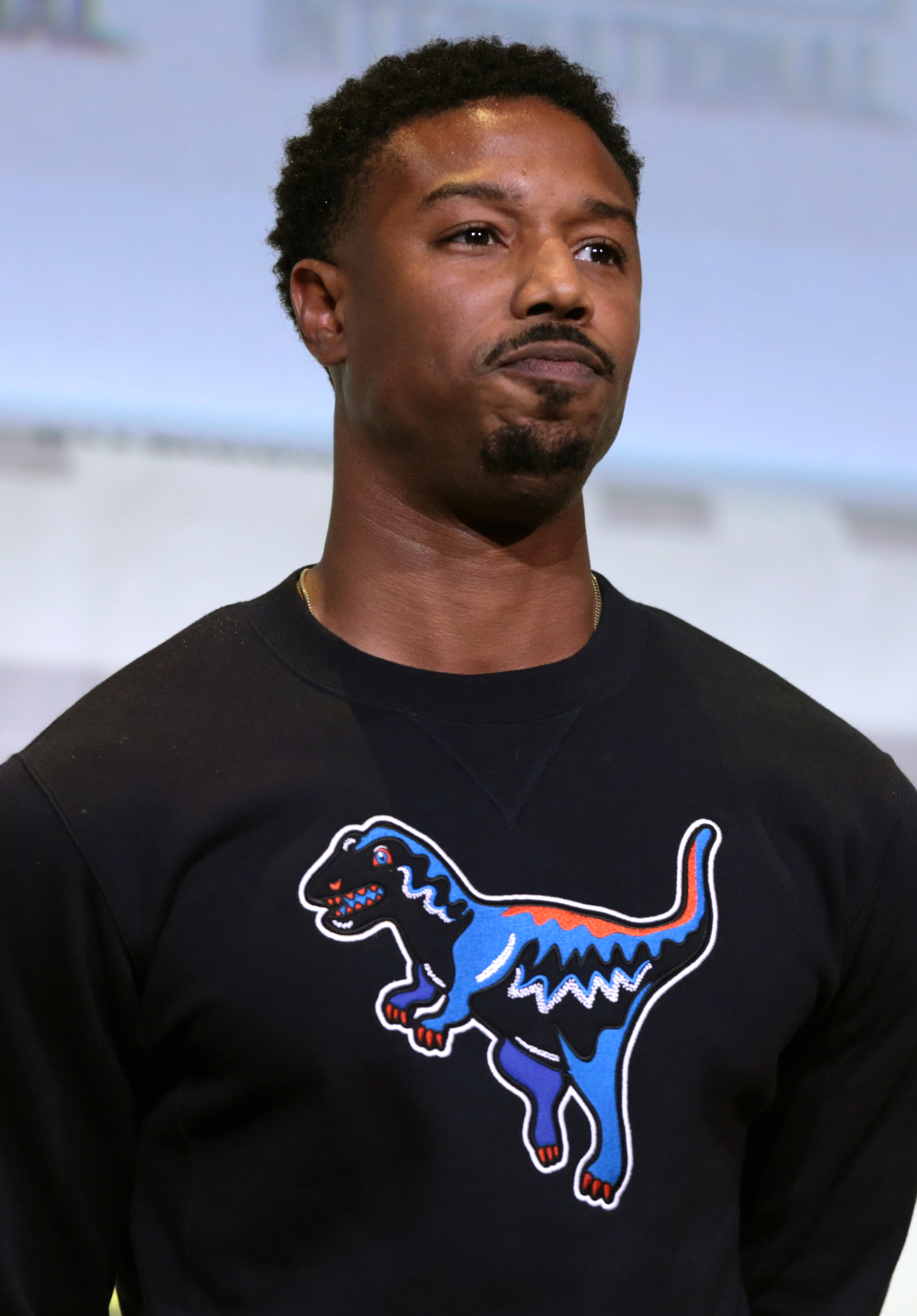 Michael B. Jordan speaking at the 2016 San Diego Comic-Con International in San Diego, California.